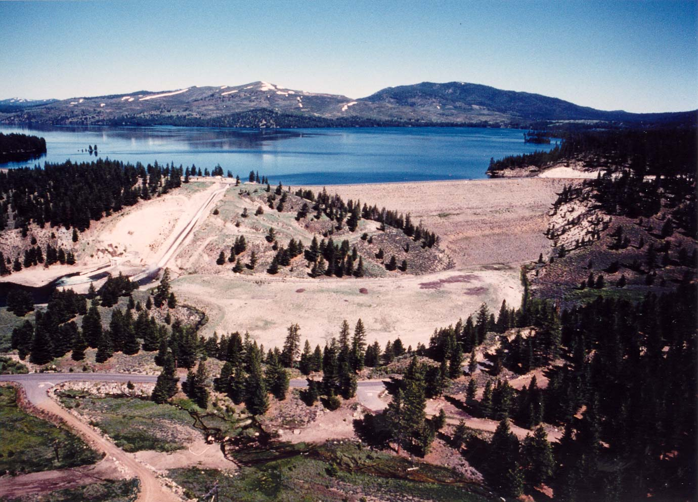 Stampede Dam and Reservoir in eastern California, USA